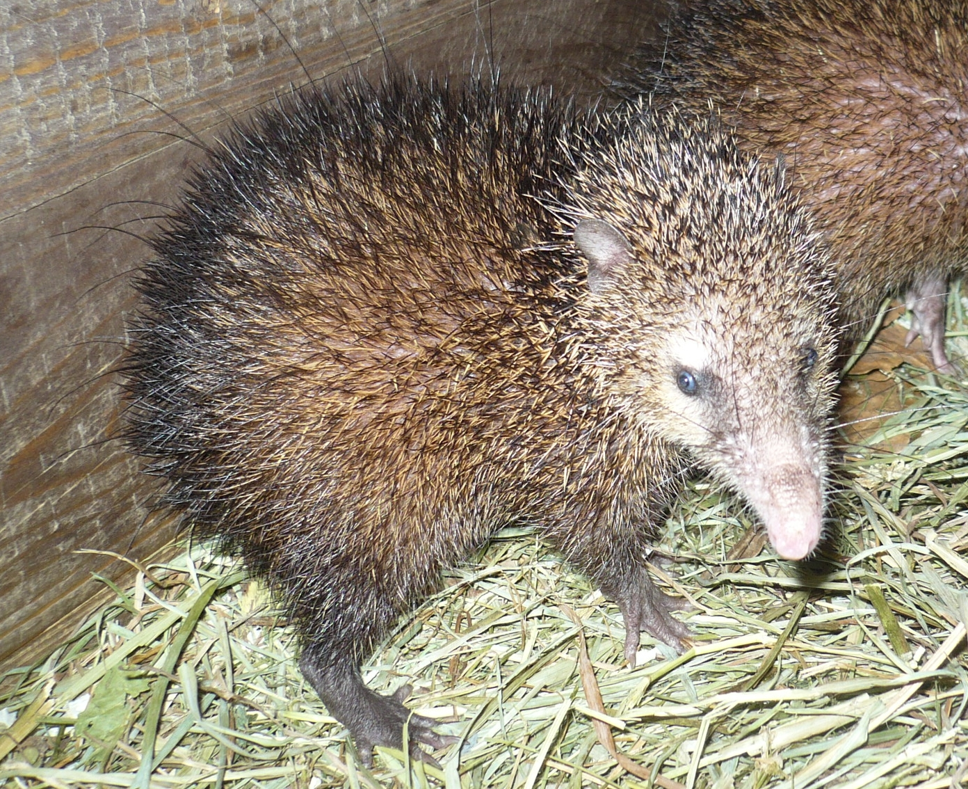 Greater Tenrec (Tenrec ecaudatus) in defensive position.